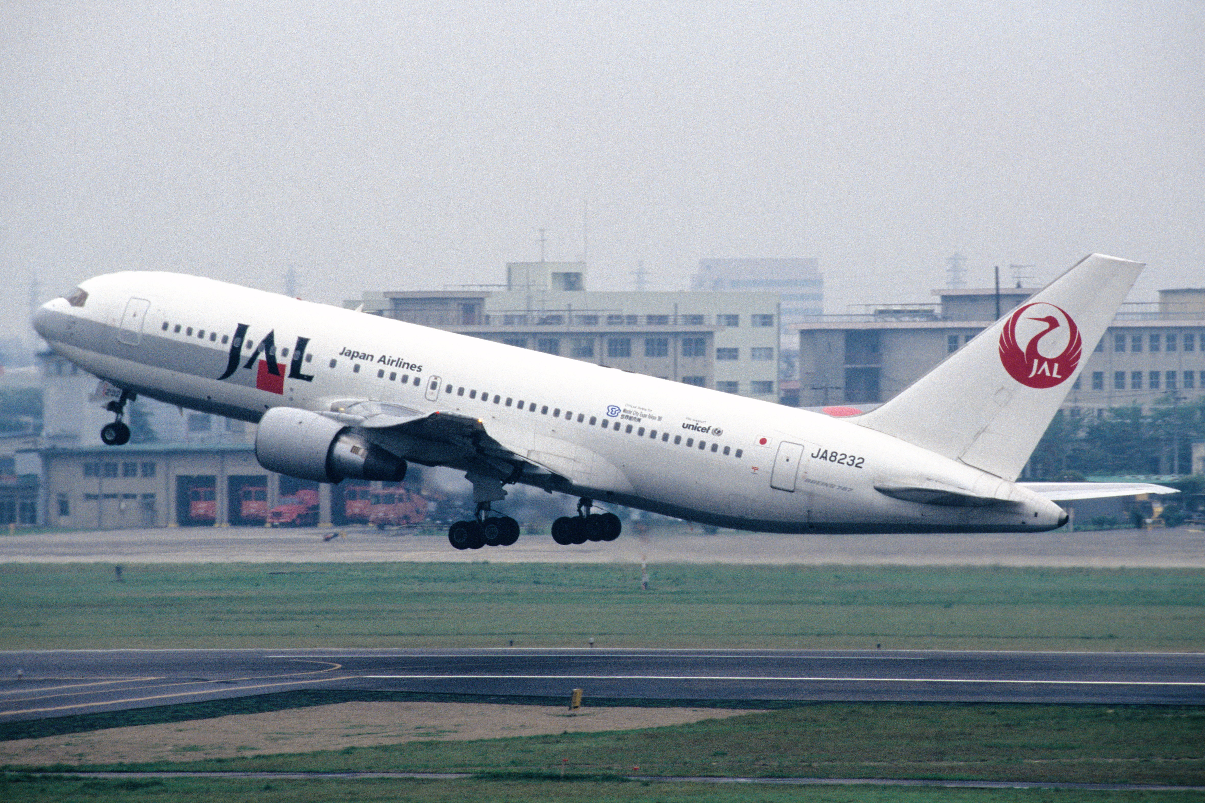 Historic Photo